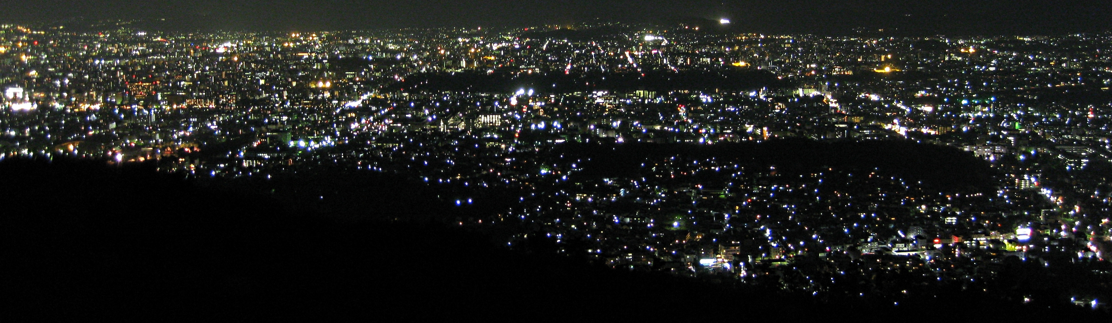 View of Kyoto City at night, taken from Higashi-yama.